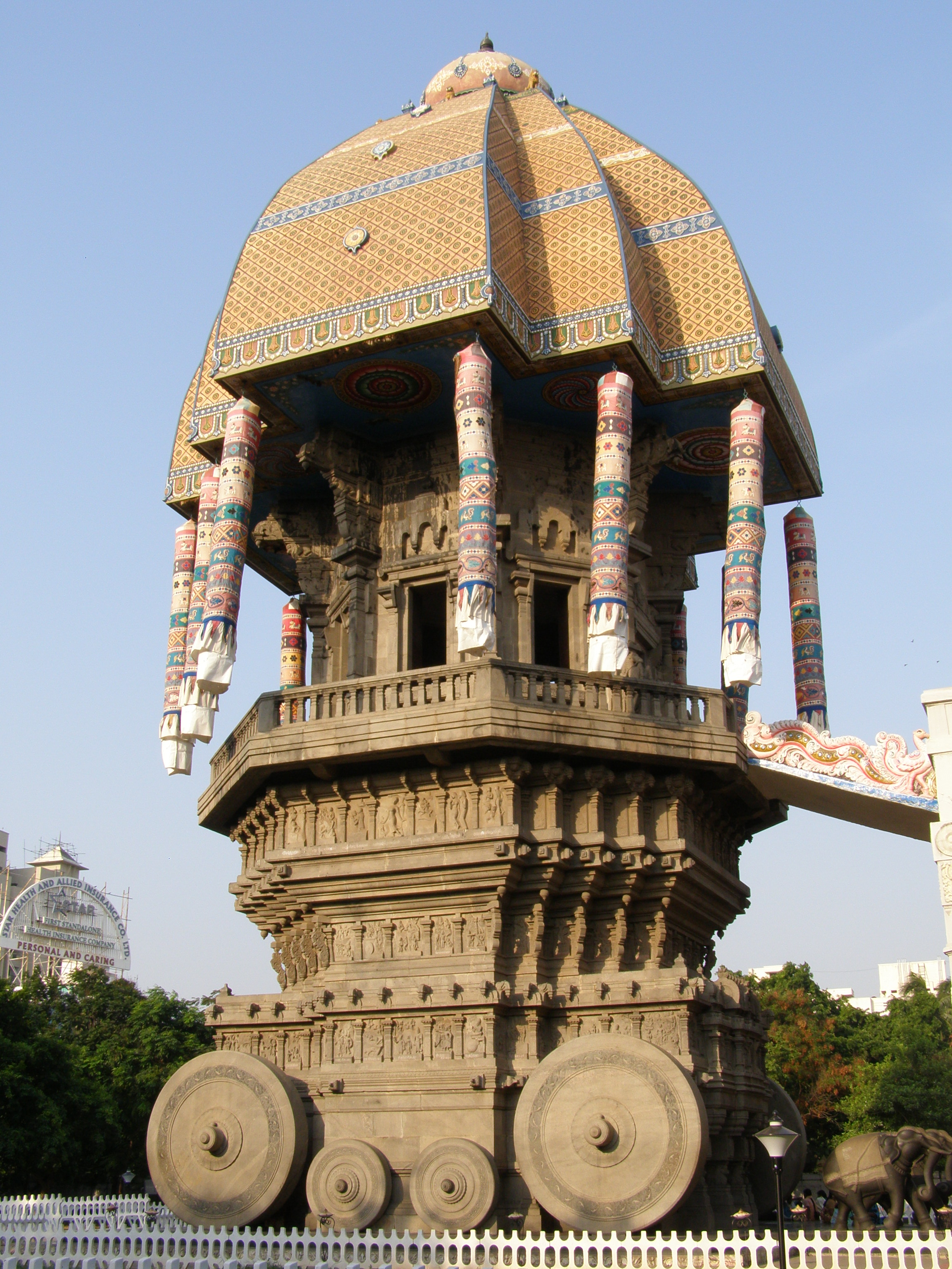 Valluvar Kottam at Chennai, India is a chariot shaped memorial dedicated to the Tamil poet Tiruvalluvar.